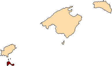 Location of Formentera